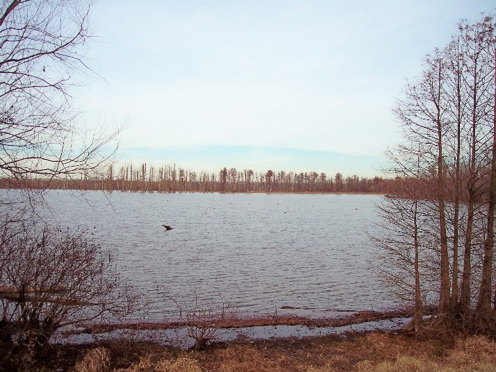 Hovey Lake at Hovey Lake Fish and Wildlife Area in Posey County, Indiana.